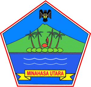 Coat of arms of the regency of North Minahasa